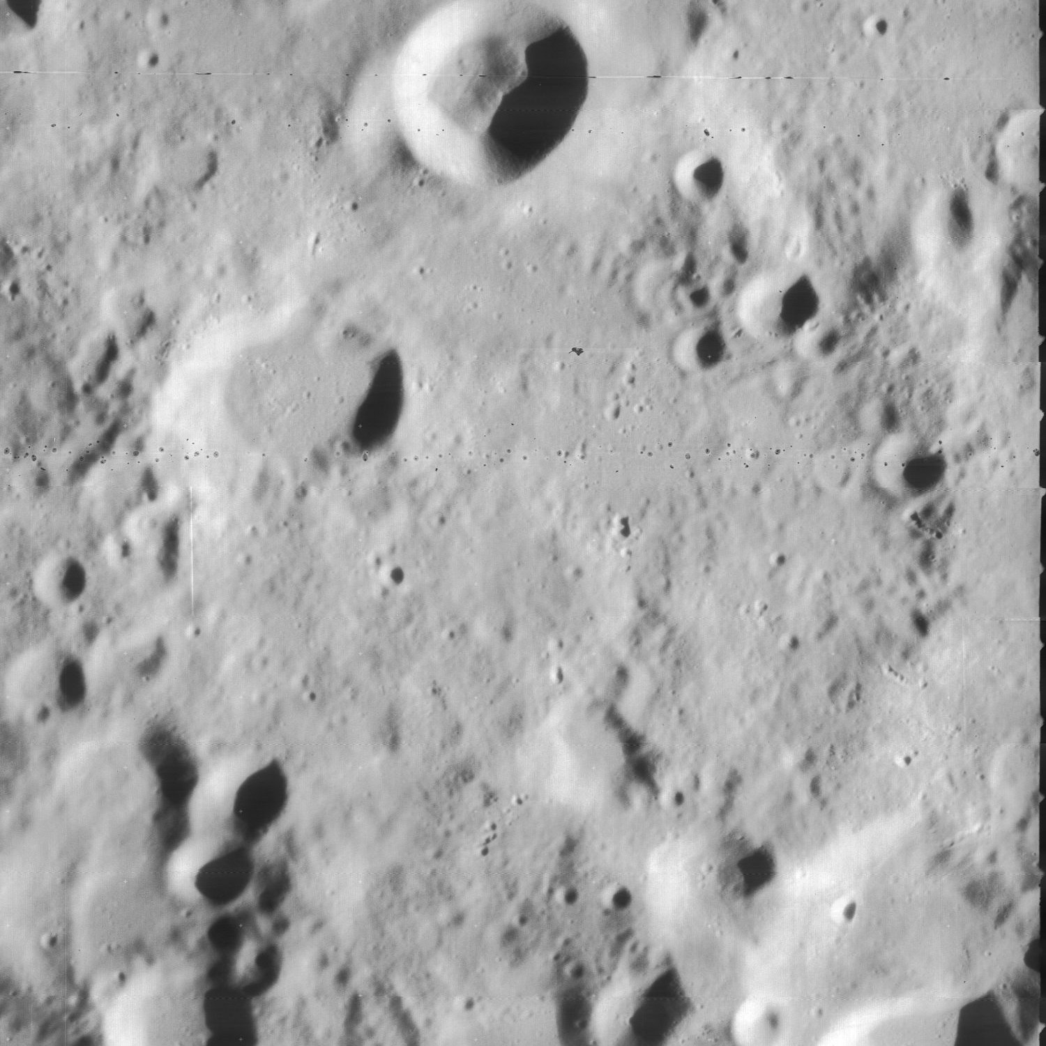 Montanari, on the moon. North is to upper right. Row of spots across center is blemish on original.